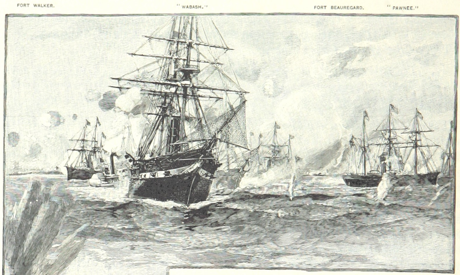 The Union fleet bombards Confederate forts during the Battle of Port Royal.